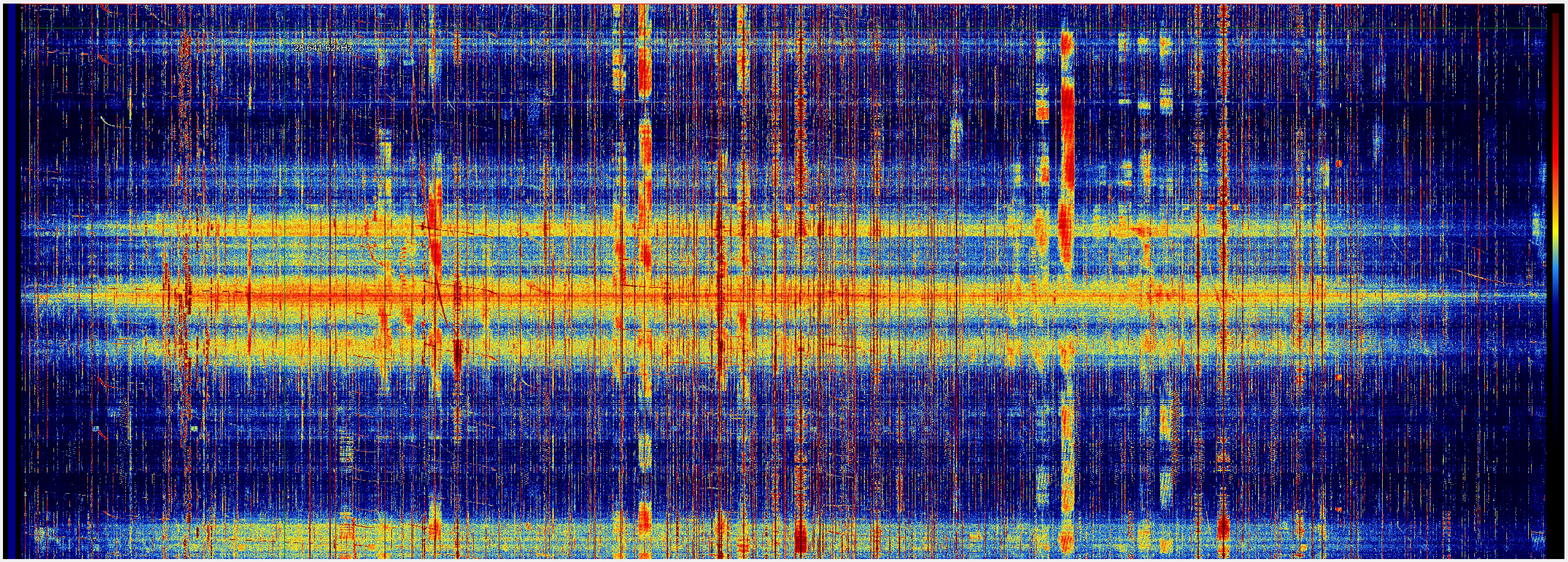 Solar flare on radiostation. RTLSDR dongle.